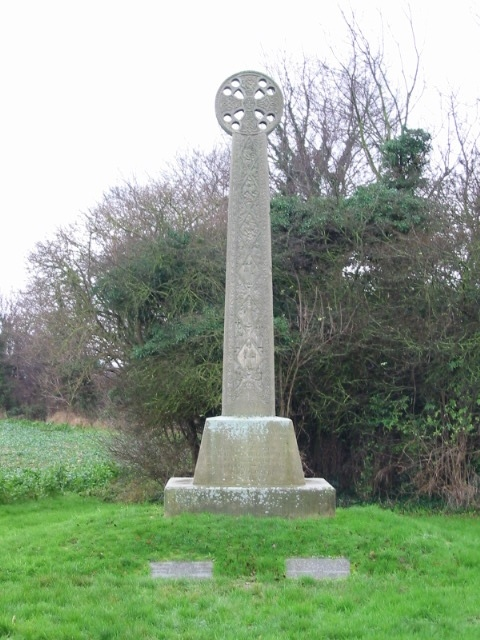 St Augustines Cross.